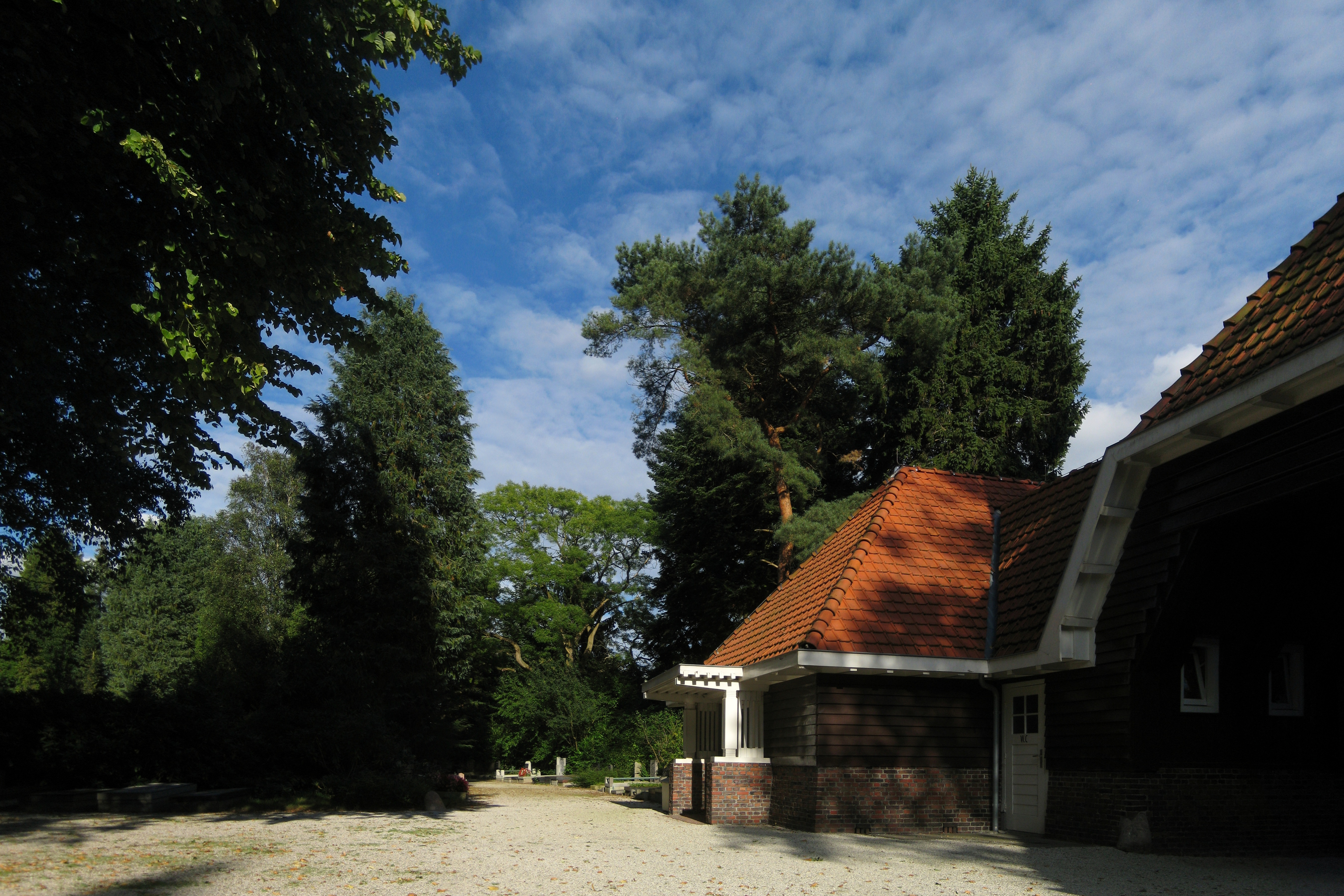 The entrance building (1924) to the Esserveld cemetery in the Dutch city of Groningen.